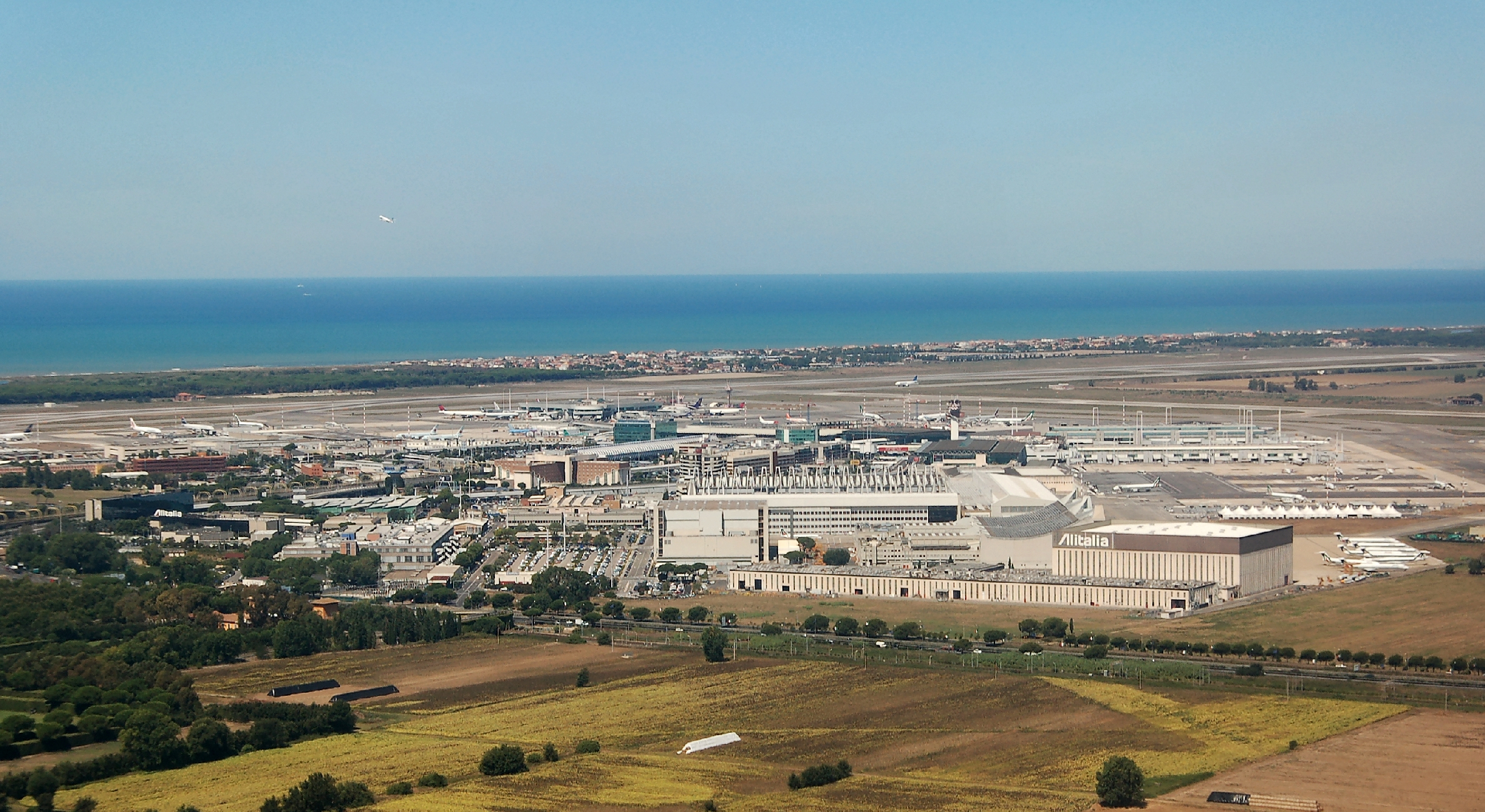 Fiumicino Airport 2011